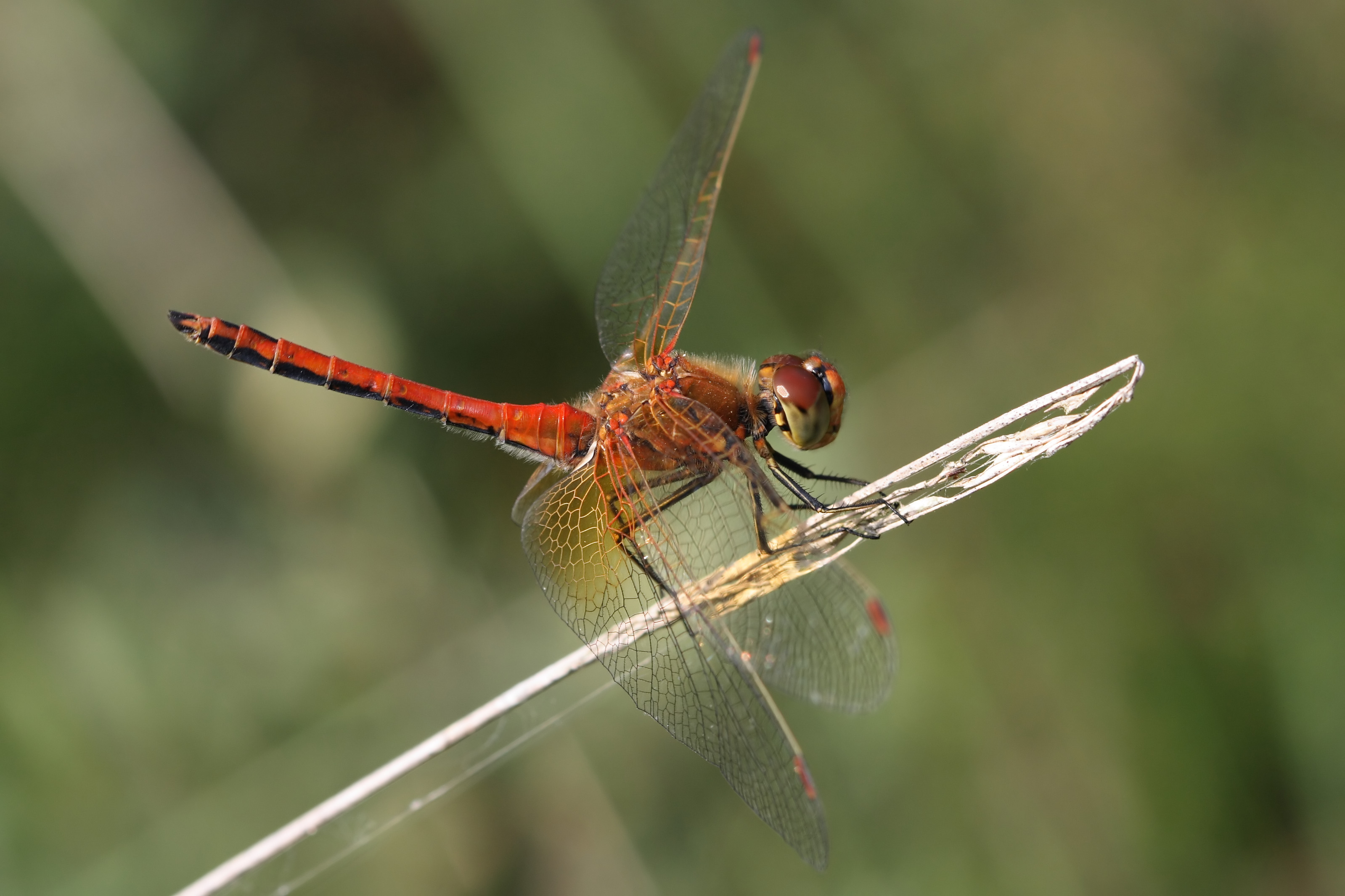 Male Yellow-winged Darter (Sympetrum flaveolum) in the Ahlenmoor, a hill moor in northern Lower Saxony, Germany. Consider the large amounts of saffron-yellow colouration to the basal area of each wing, which is particularly noticeable on the hind-wings, which allow a differentiation of other species.